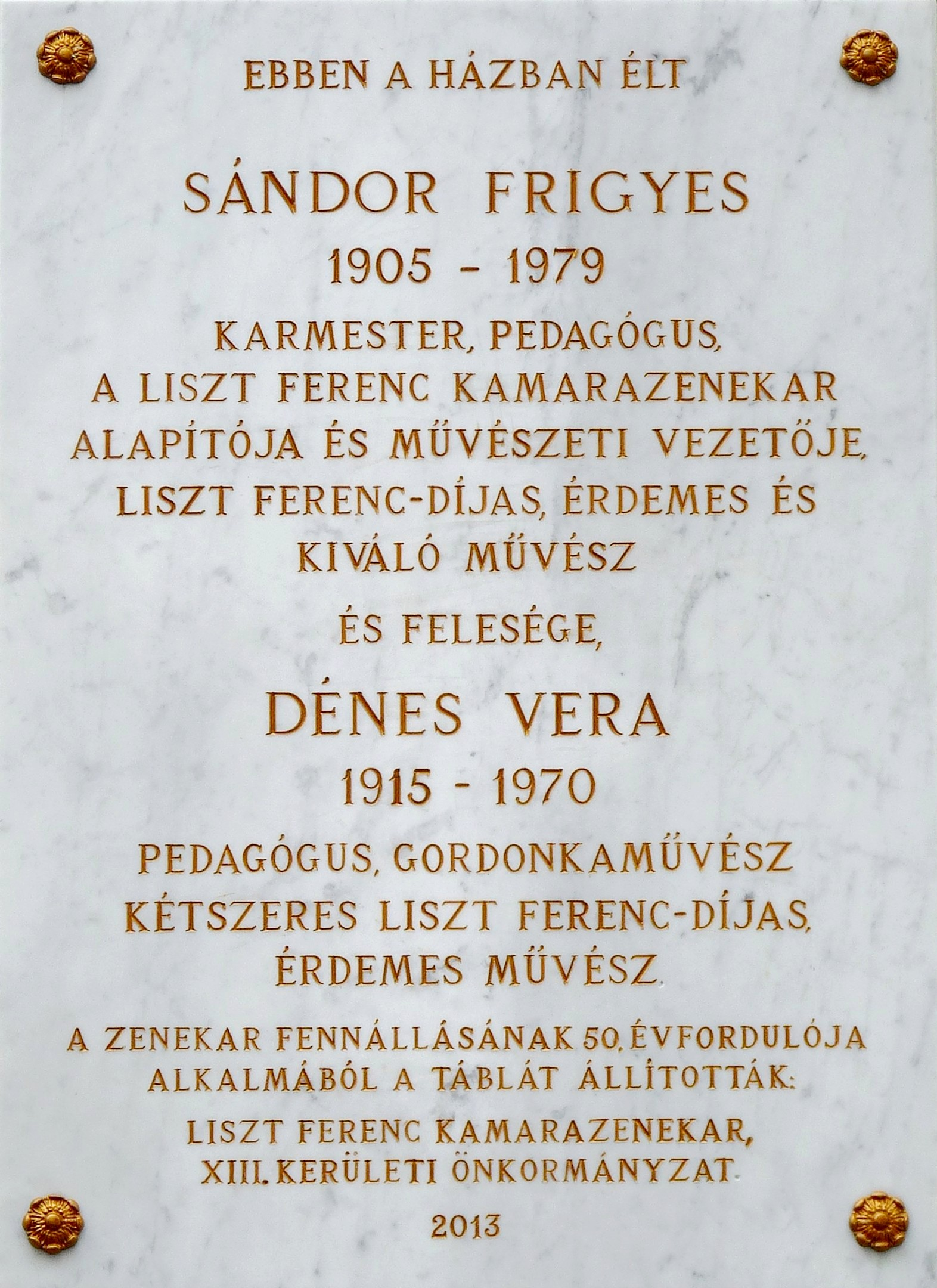 Commemorative plaque to Mr. Frigyes Sándor (1905–1979) Hungarian conductor and music educator, founding member of the Franz Liszt Chamber Orchestra and his wife Vera Dénes (1915-1970) cellist. The plaque affixed on the front of their former home on the occasion of the 50th anniversary of the founding of the orchestra was inaugurated on 19 March 2013. (Budapest, District XIII, Kresz Géza Street Nr 17).